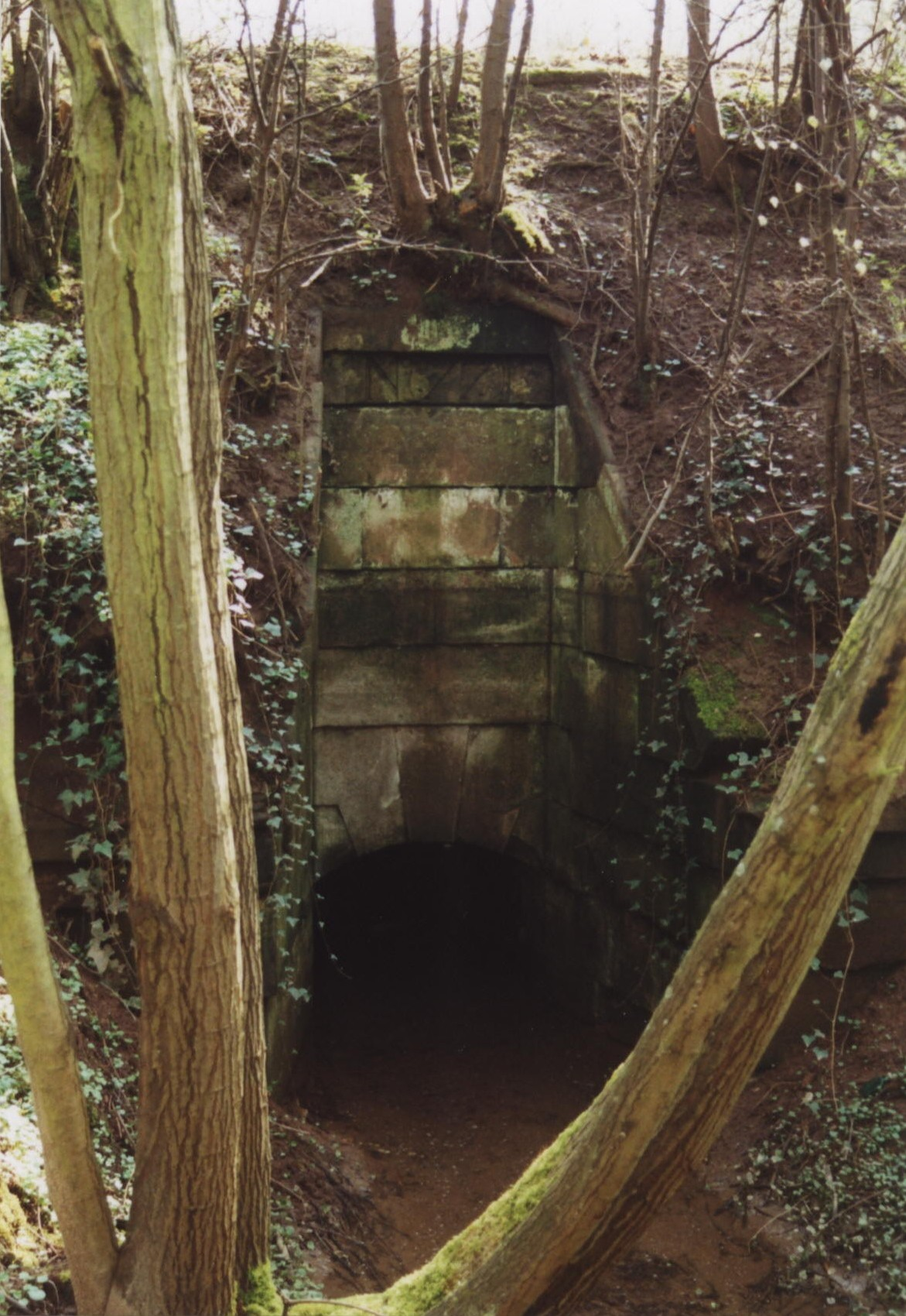 Building #77 of Albersweilerer Kanal; near Landau-Godramstein